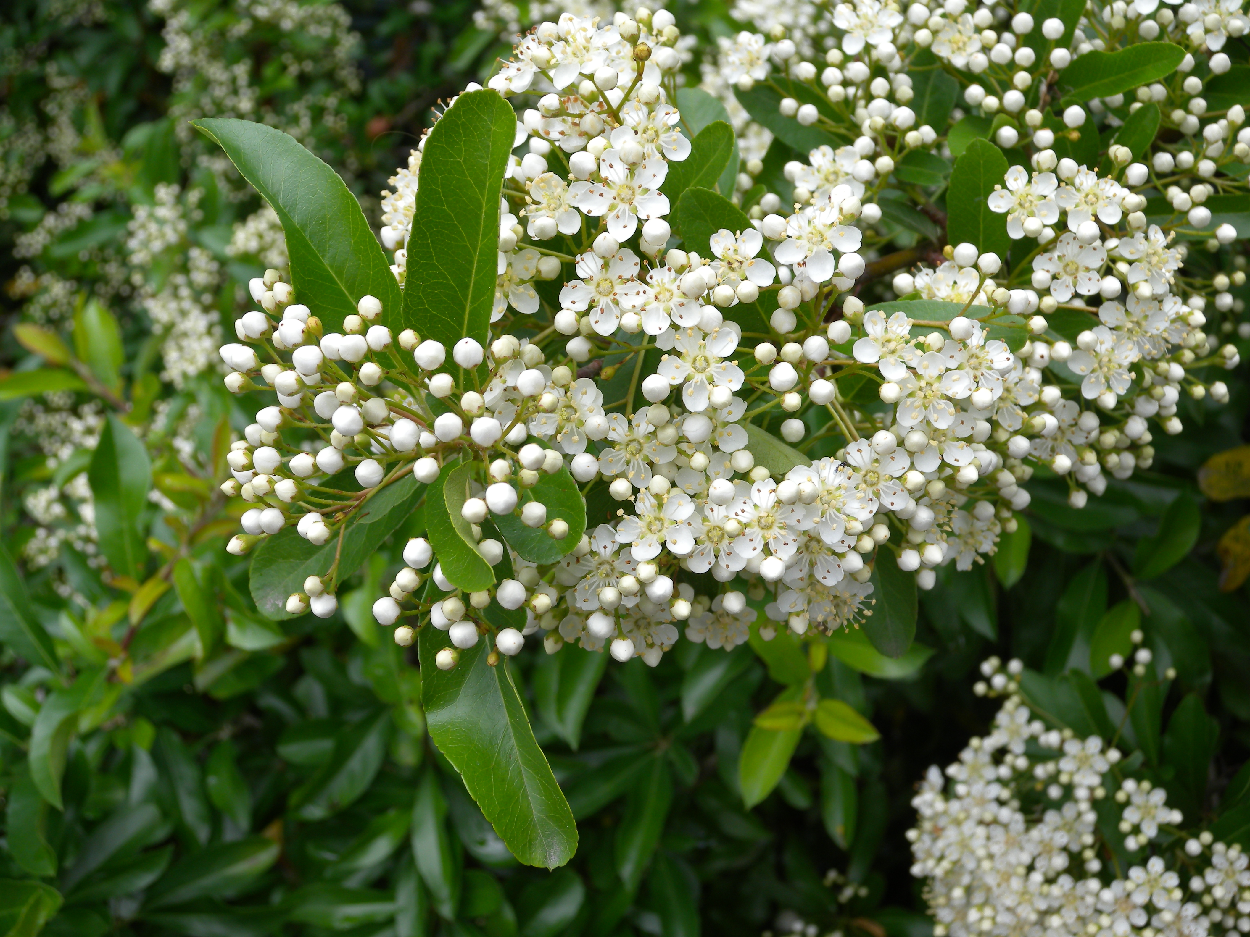 Flowering Pyracantha coccinea (Rosaceae); Bern, Switzerland